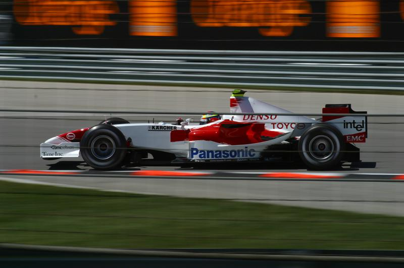 Ricardo Zonta driving for Toyota F1 at the 2005 United States Grand Prix.